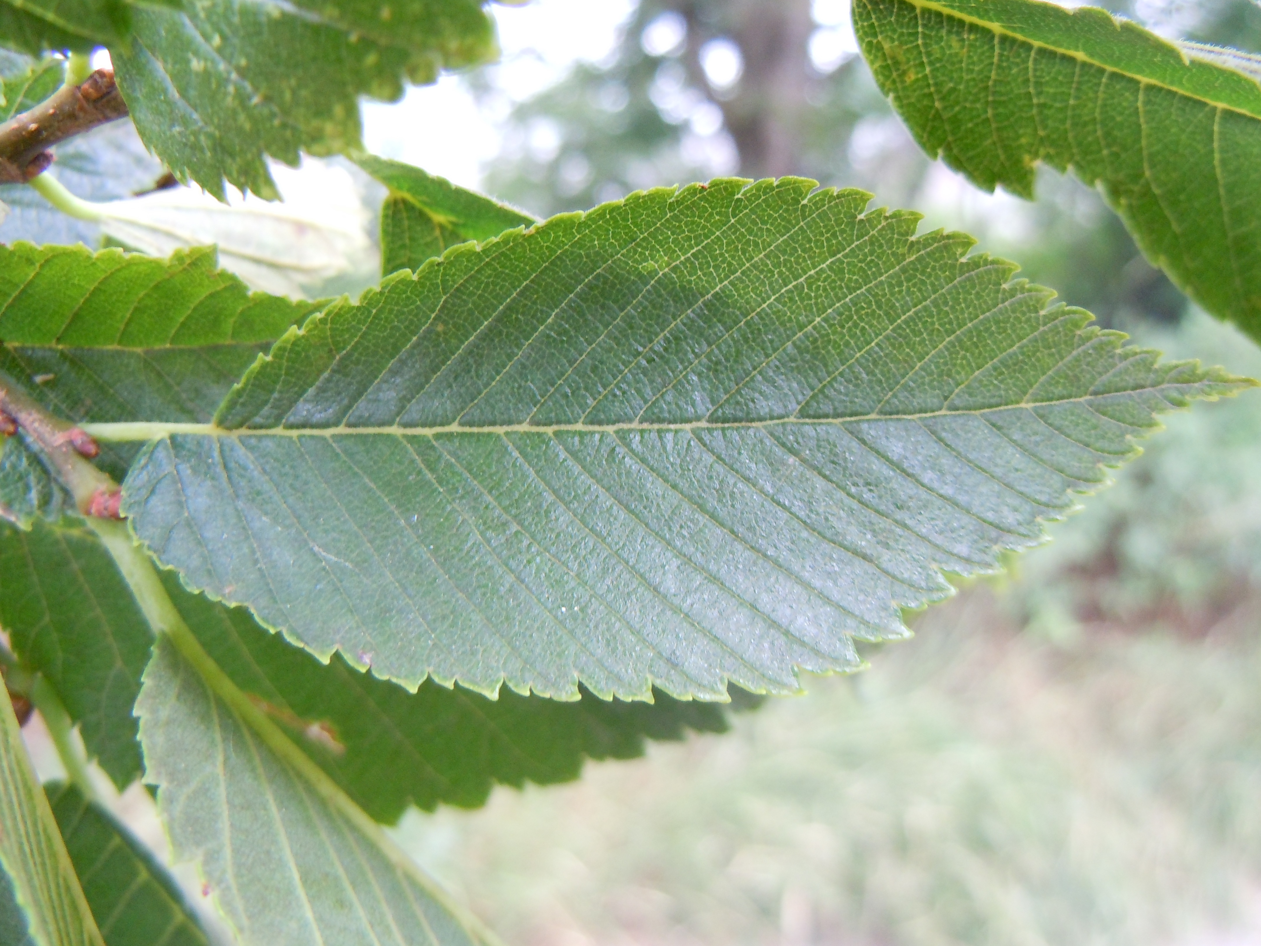 Leaves arranged in distichous fashion and leaf blades with an asymmetrical base and double-serrate margins are characteristics of the Ulmaceae.